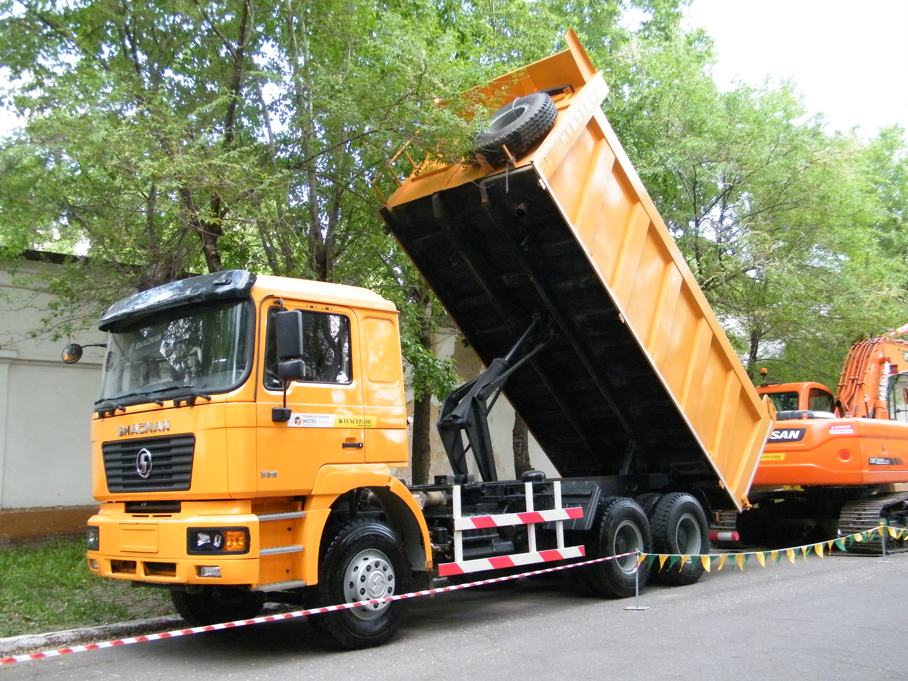 Самосвал Shacman